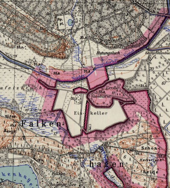 Ausschnitt aus dem Messtischblatt 3444, Ausgabe 1967